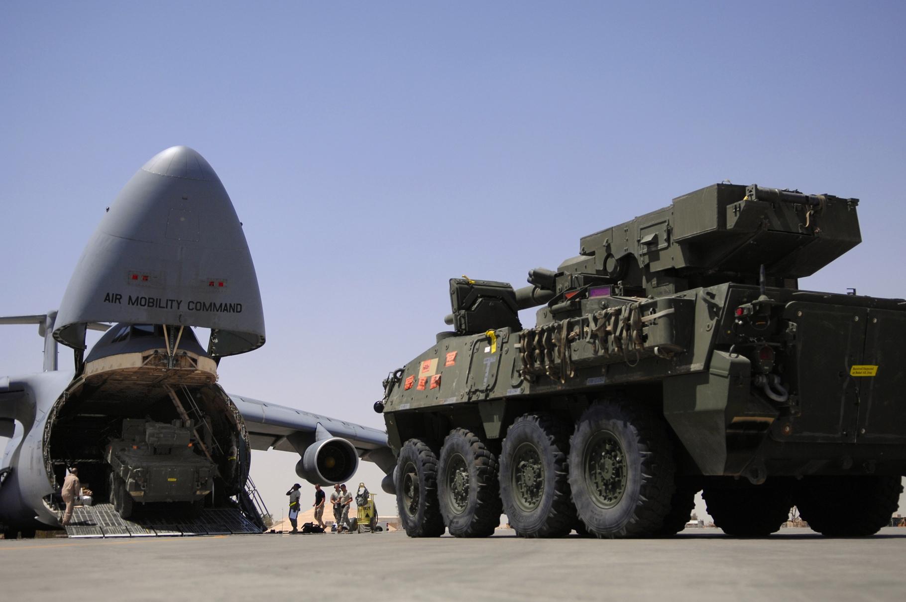 Strykers are loaded onto an Air Mobility Command plane at Joint Base Balad, Iraq, for transport to the United States, where they will be repaired and returned to fighting units